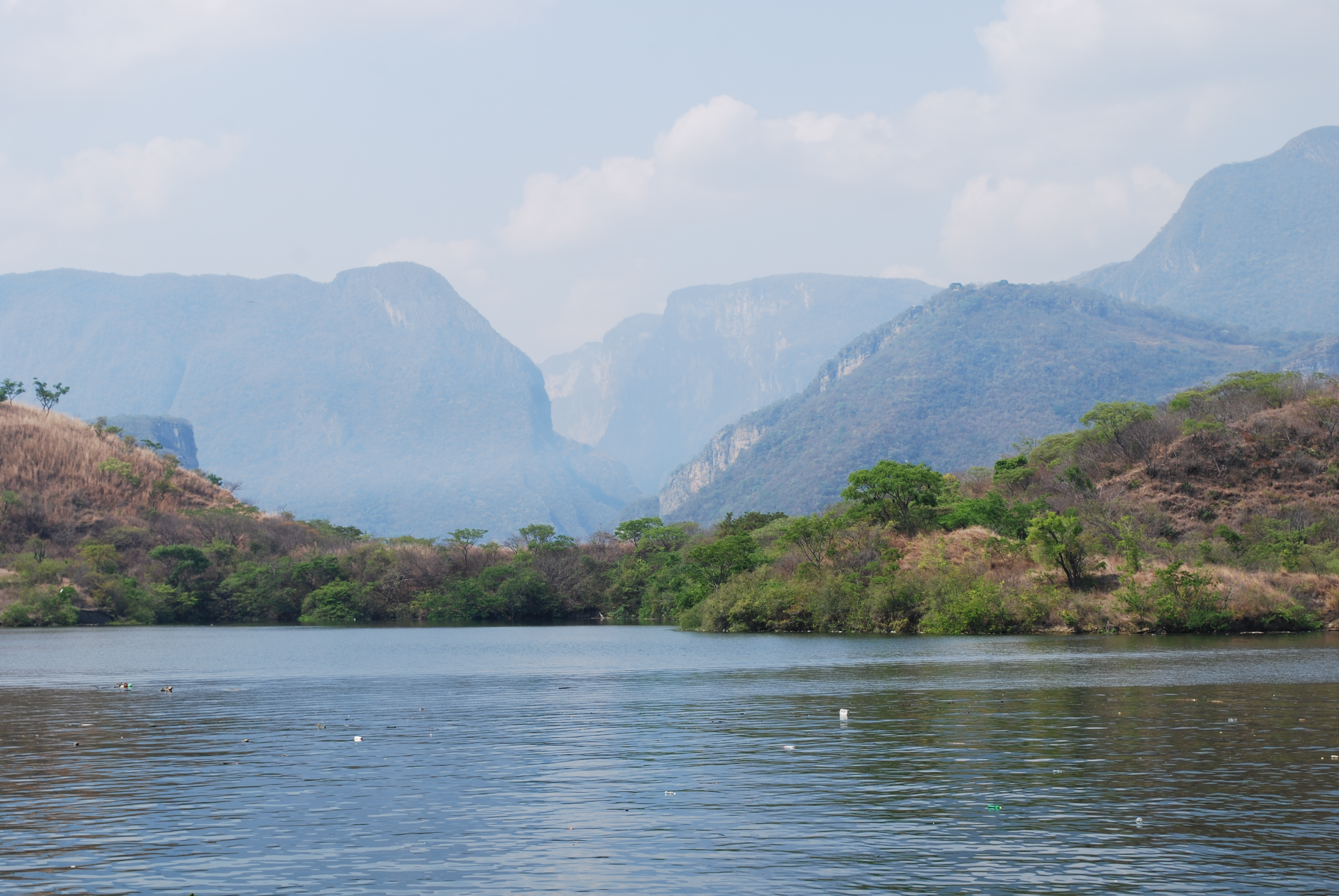 Looking over the Chicoasen reservior towards the Sumidero Canyon in Chiapas, Mexico